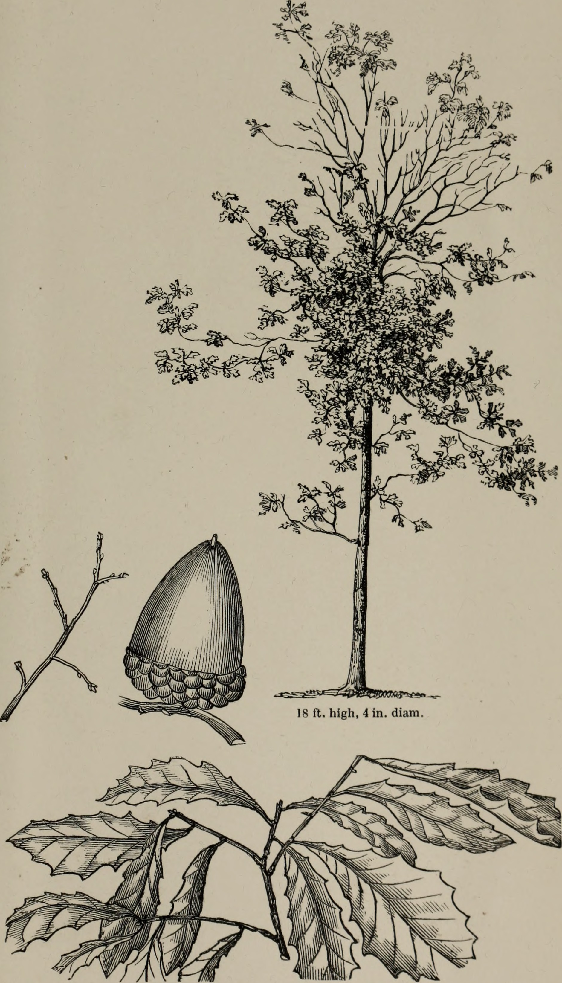 Title: Arboretum et fruticetum britannicum, or : The trees and shrubs of Britain, native and foreign, hardy and half-hardy, pictorially and botanically delineated, and scientifically and popularly described ... Year: 1844 (1840s) Authors: Loudon, J. C. (John Claudius), 1783-1843 Subjects: Trees; Shrubs; Botany; Botany Publisher: London : J. C. Loudon Text Appearing Before Image: 309 Quercus alba. The American white Oak. Text Appearing After Image: '